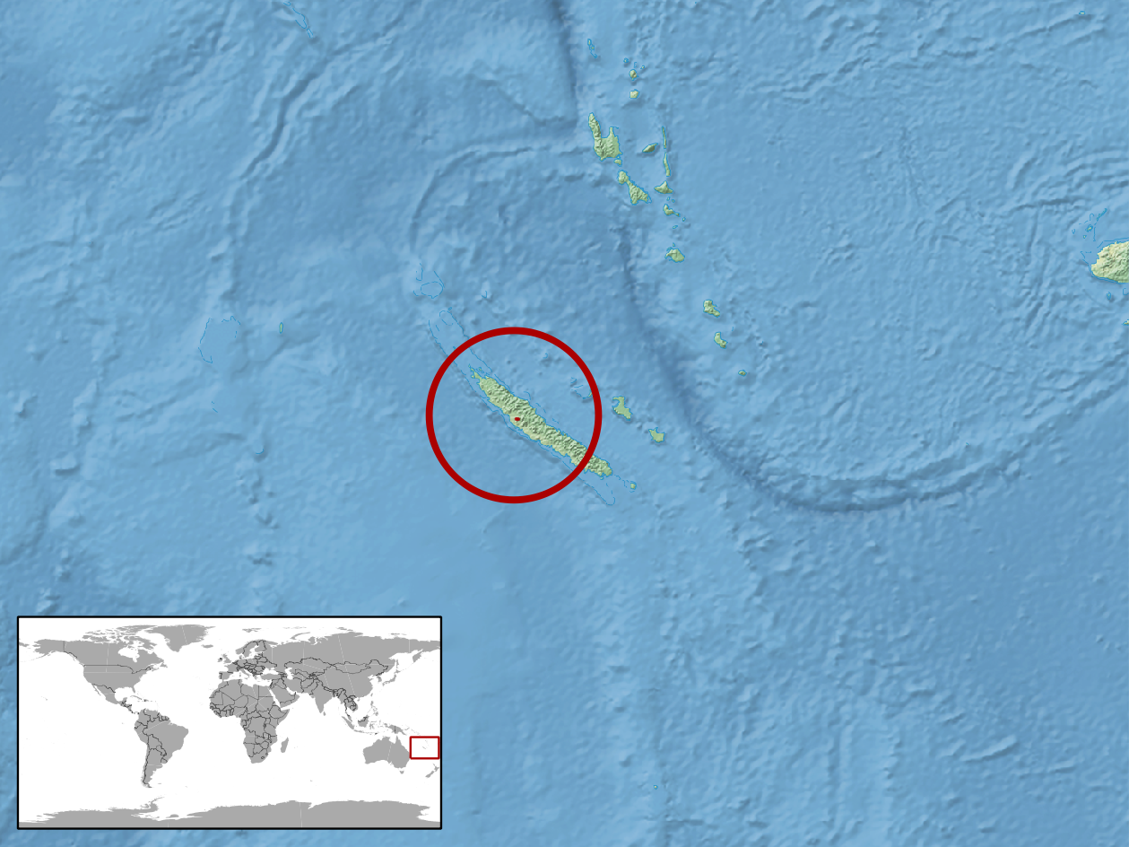 geographic distribution of Nannoscincus manautei